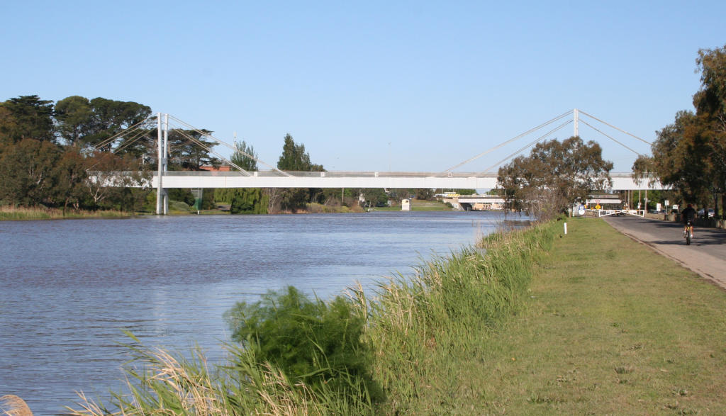 McIntyre Bridge - Geelong, Victoria, Australia